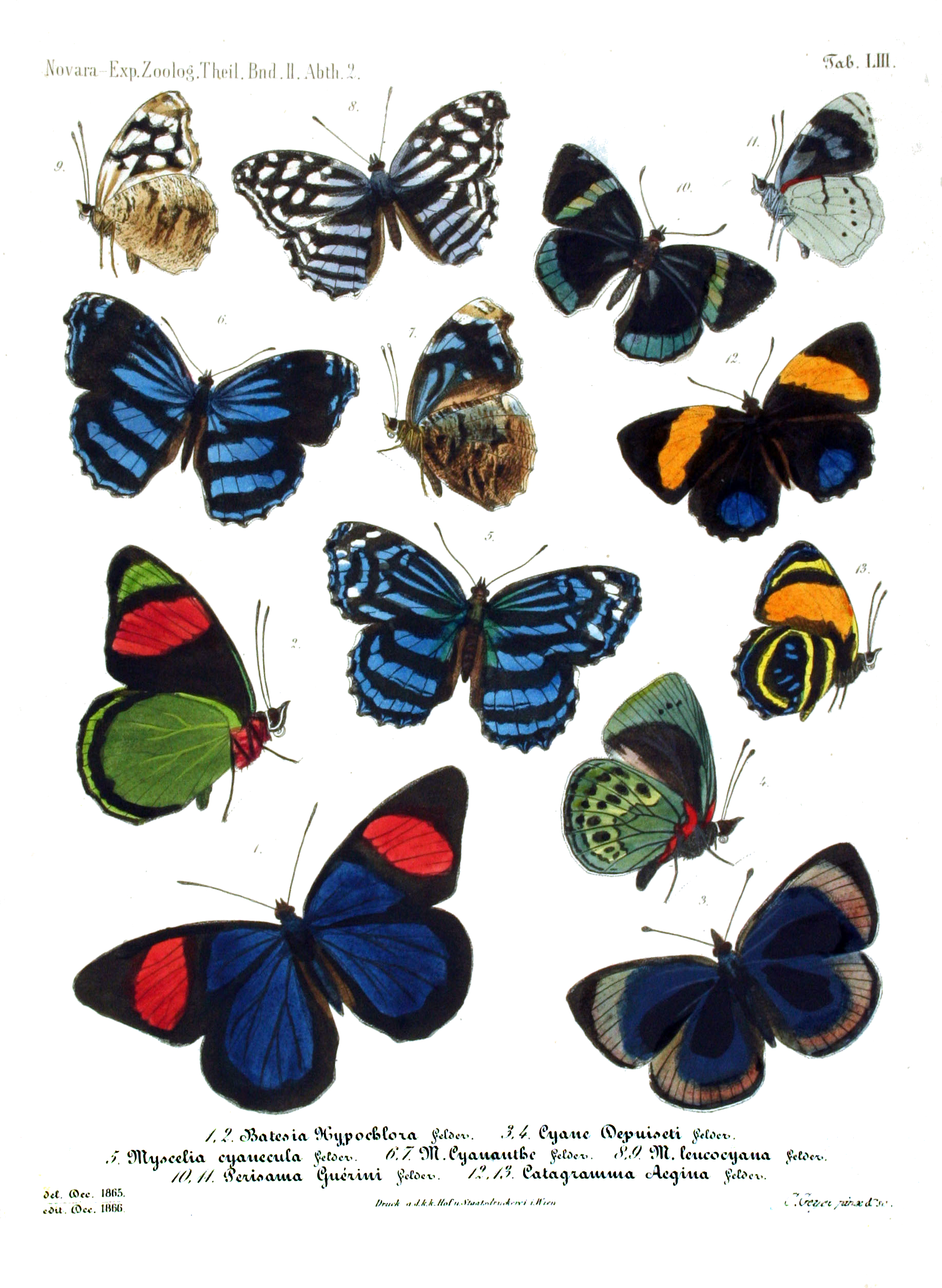 Reise der Österreichischen Fregatte Novara um die Erde in den Jahren 1857, 1858, 1859 unter den Befehlen des Commodore B. von Wüllerstorf-Urbair. (18-- ) Tafel LIII. 1,2. Batesia hypochlora Valid name Batesia hypochlora C. & R. Felder, 1862 3,4. Cyane depuiseti Valid name Asterope leprieuri depuiseti (C. & R. Felder, 1861) 5. Myscelia cyanecula Valid name Myscelia ethusa cyanecula C. & R. Felder, [1867] 6,7. Myscelia cyananthe C. & R. Felder, [1867] 8,9. Myscelia leucocyana C. & R. Felder, 1861 10,11. Perisama guerini Valid name Perisama guerini C. & R. Felder, [1867] 12,13. Catagramma aegina Valid name Callicore lyca aegina (C. & R. Felder, 1861)